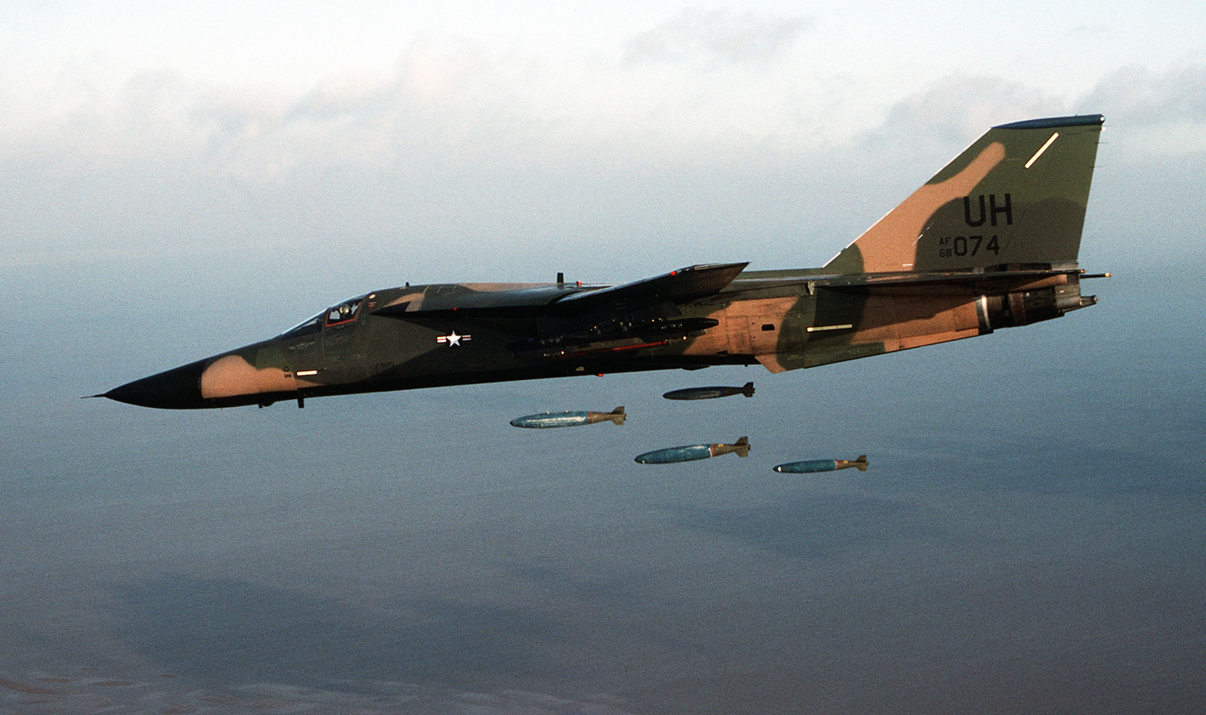 A U.S. Air Force General Dynamics F-111E (s/n 68-0074) assigned to the 20th Tactical Fighter Wing, from RAF Upper Heyford, Oxfordshire (UK), drops Mk 82 practice bombs. The F-111E 68-0074 was retired to the AMARC as FV0209 on 16 October 1995.